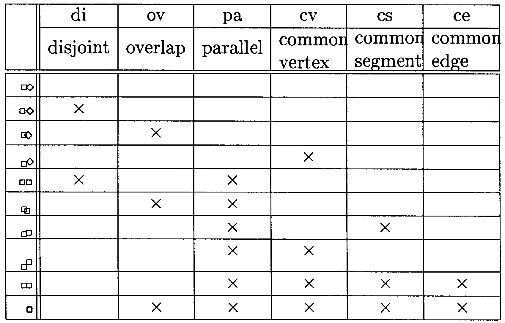 A formal context for pairs of squares in the plain.